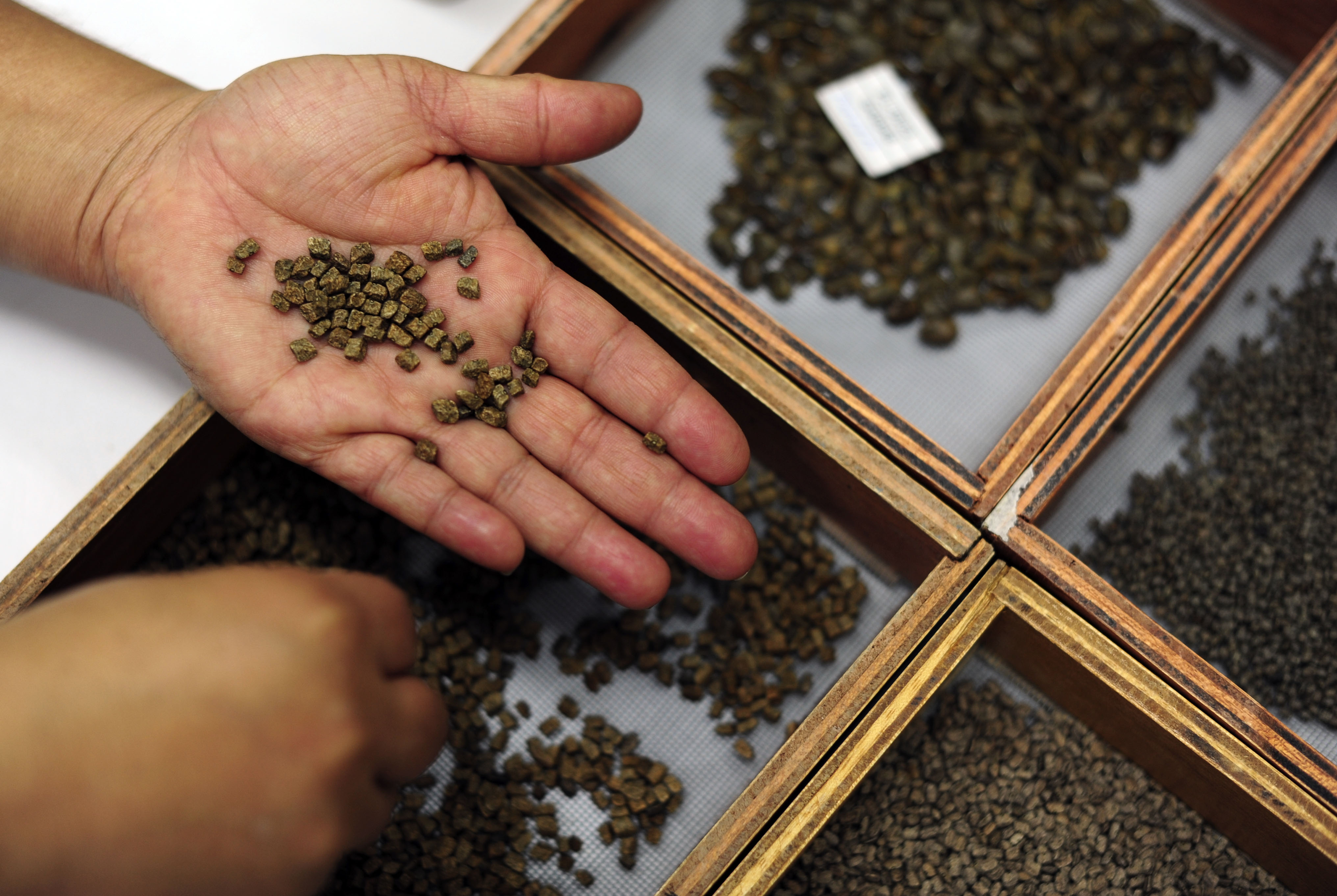 Beans at the CIAT gene bank in Colombia, which has just sent its latest consignments of seeds for conservation at the Global Seed Vault in Svalbard, Norway.